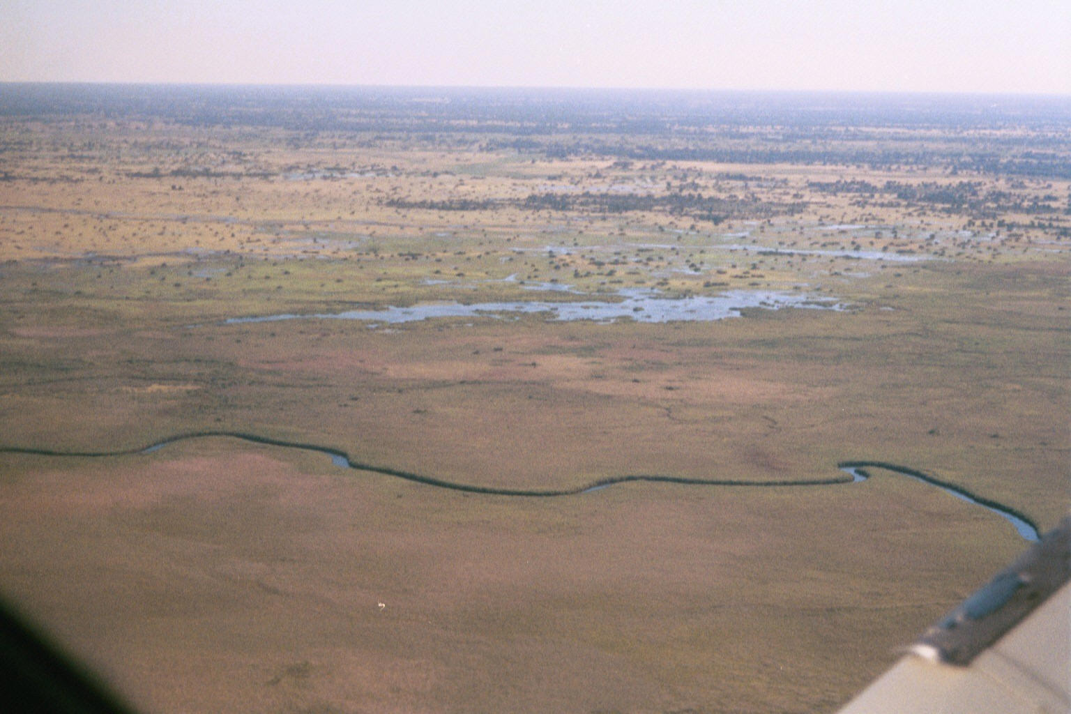 The Okavango Delta as viewed from a Cessna at 1,200 ft.